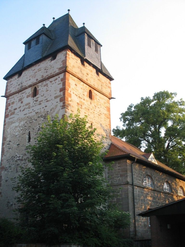 Church of Lahntal-Sterzhausen